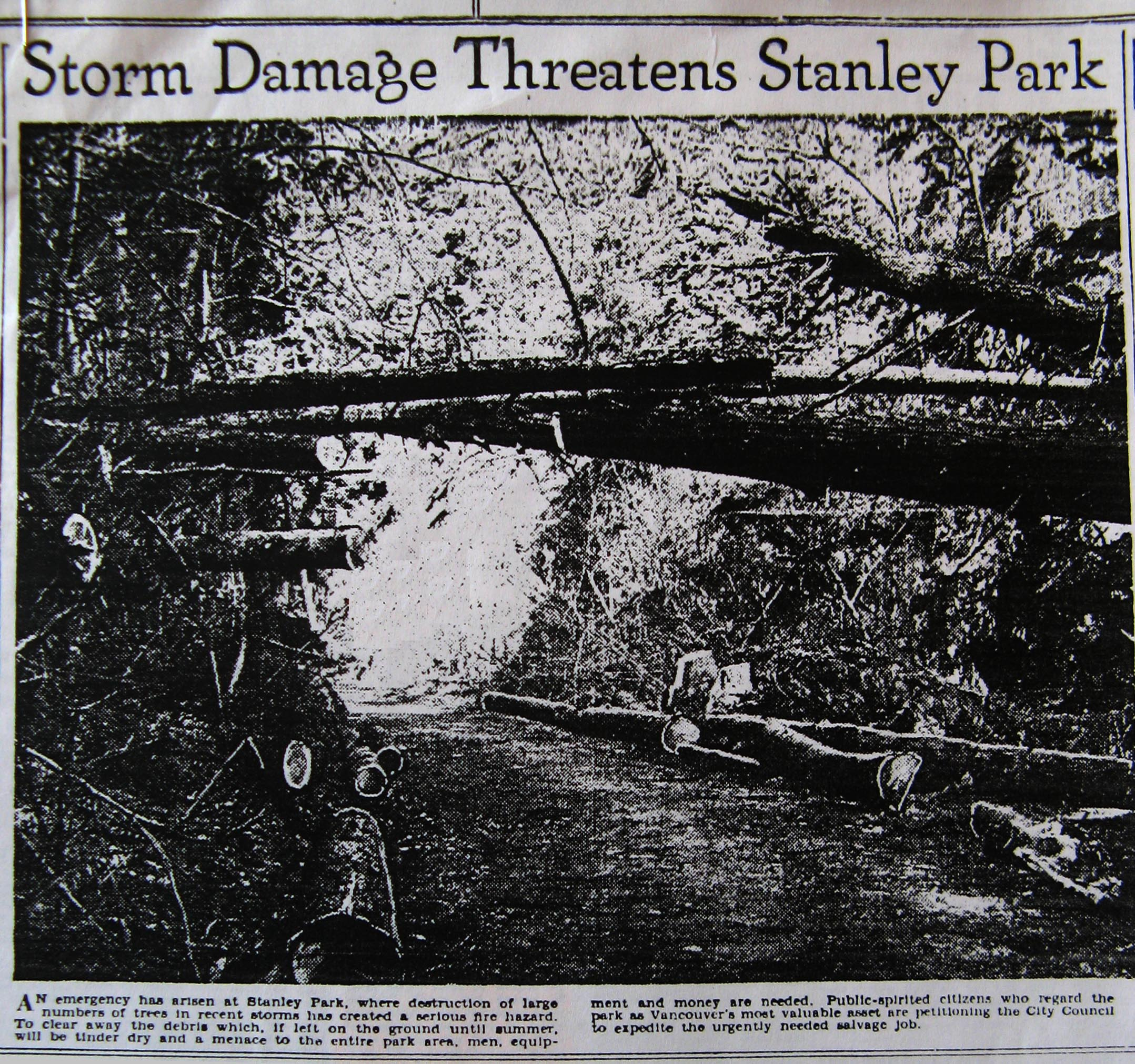 Storm damage photo from the Vancouver Daily Province newspaper